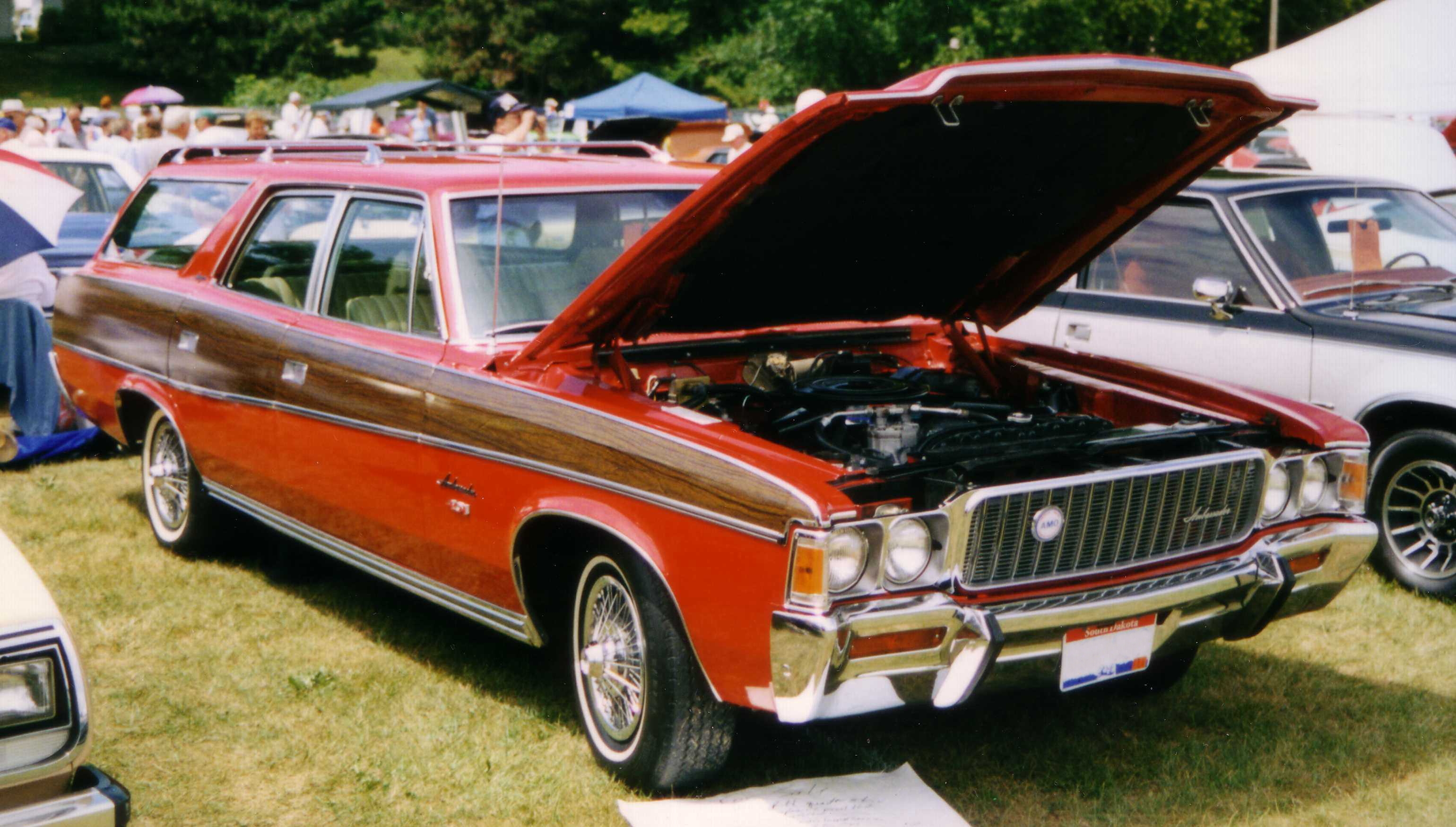 American Motors Corporation - 1971 AMC Ambassador Brougham station wagon finished in "Matador Red" paint with the standard woodgrain side panels. This car has AMC's optional simulated wire wheel covers. It is also equipped with AMC's 401 CID (6.6 L) V8 engine. Picture taken a classic car show.